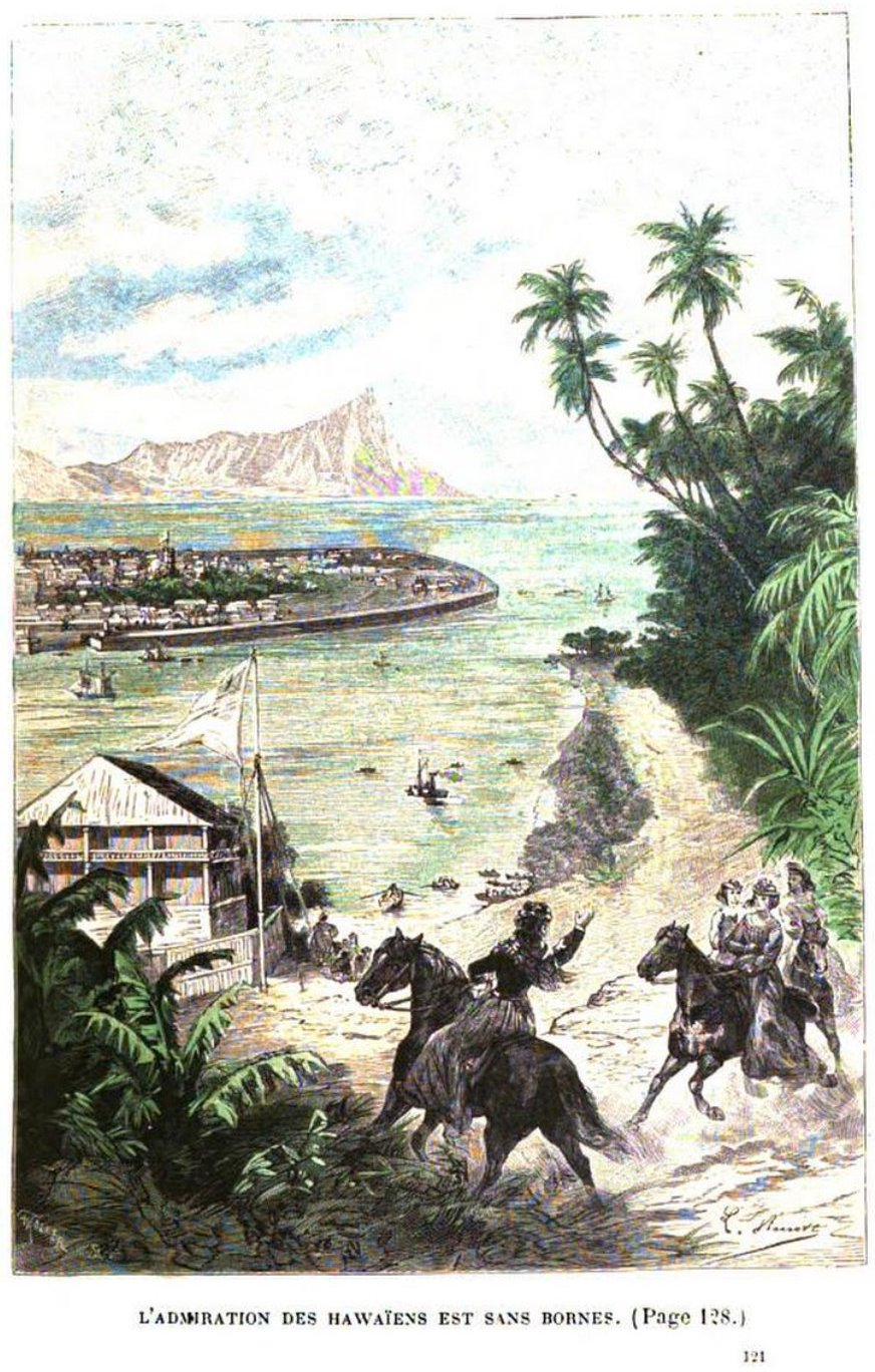 Illustration from the 1895 book Propeller Island by Jules Verne. Illustrator Léon Benett shows Hawaiians admiring the man-made island as it approaches Hawaii.